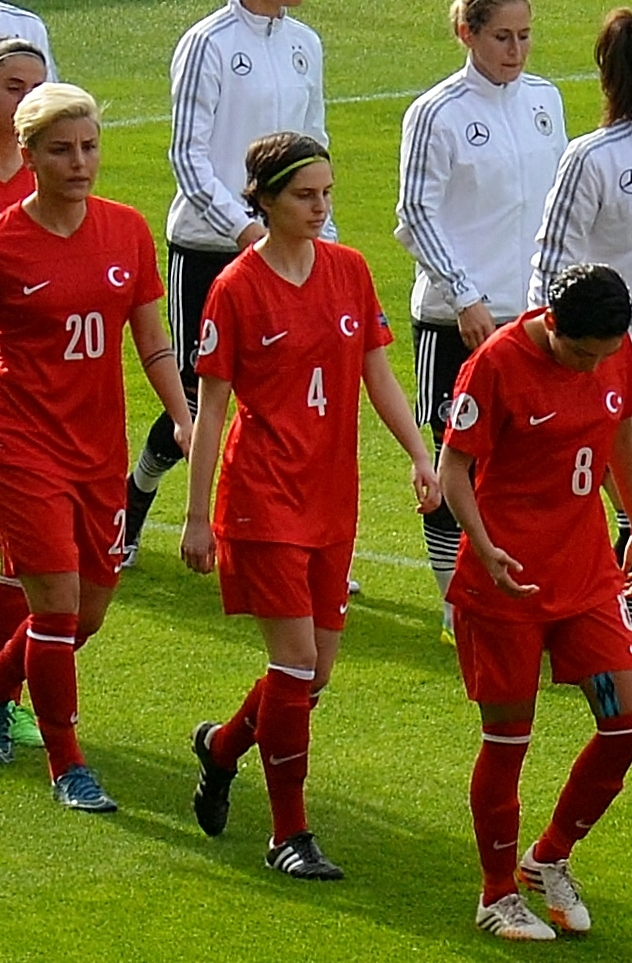 Esra Sibel Tezkan playing for Turkey women's national at the UEFA Women's Euro 2017 qualifying Group 5 match against Gemany in Istanbul, Turkey